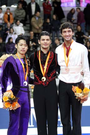 The men's podium at the 2007-2008 ISU Grand Prix Final. From left: Daisuke Takahashi (2nd), Stéphane Lambiel (1st), Evan Lysacek (3rd).